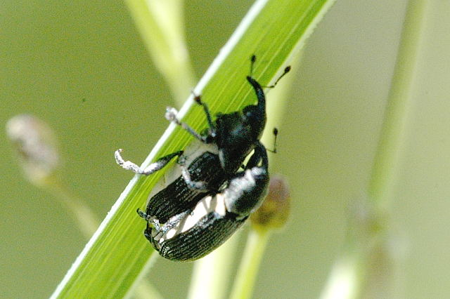 Picture taken in Commanster, Belgian High Ardennes . Species: Limnobaris t-album couple